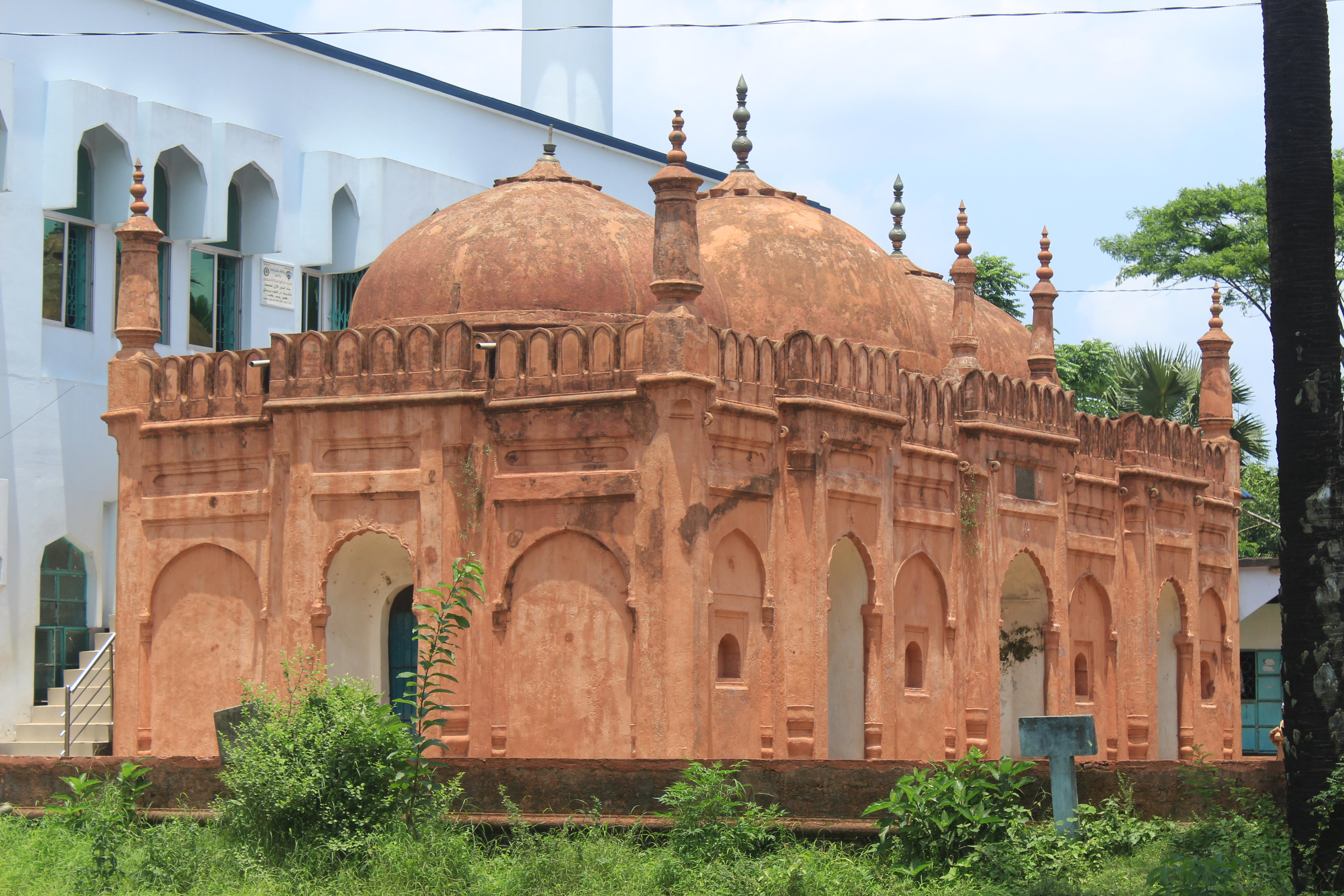 Mohammad Ali Chowdhury Mosque